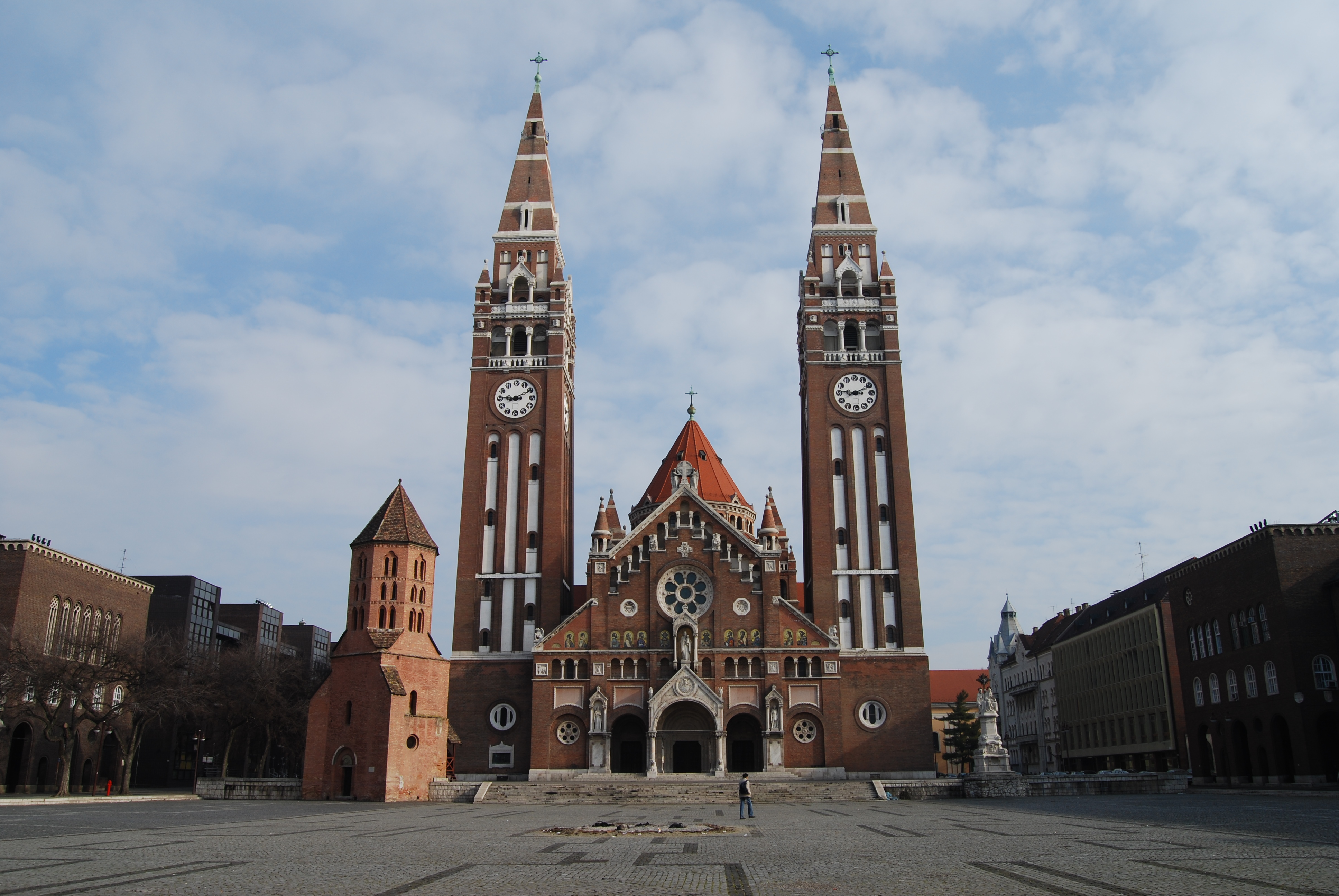 Szeged cathedral, Szeged, Hungary